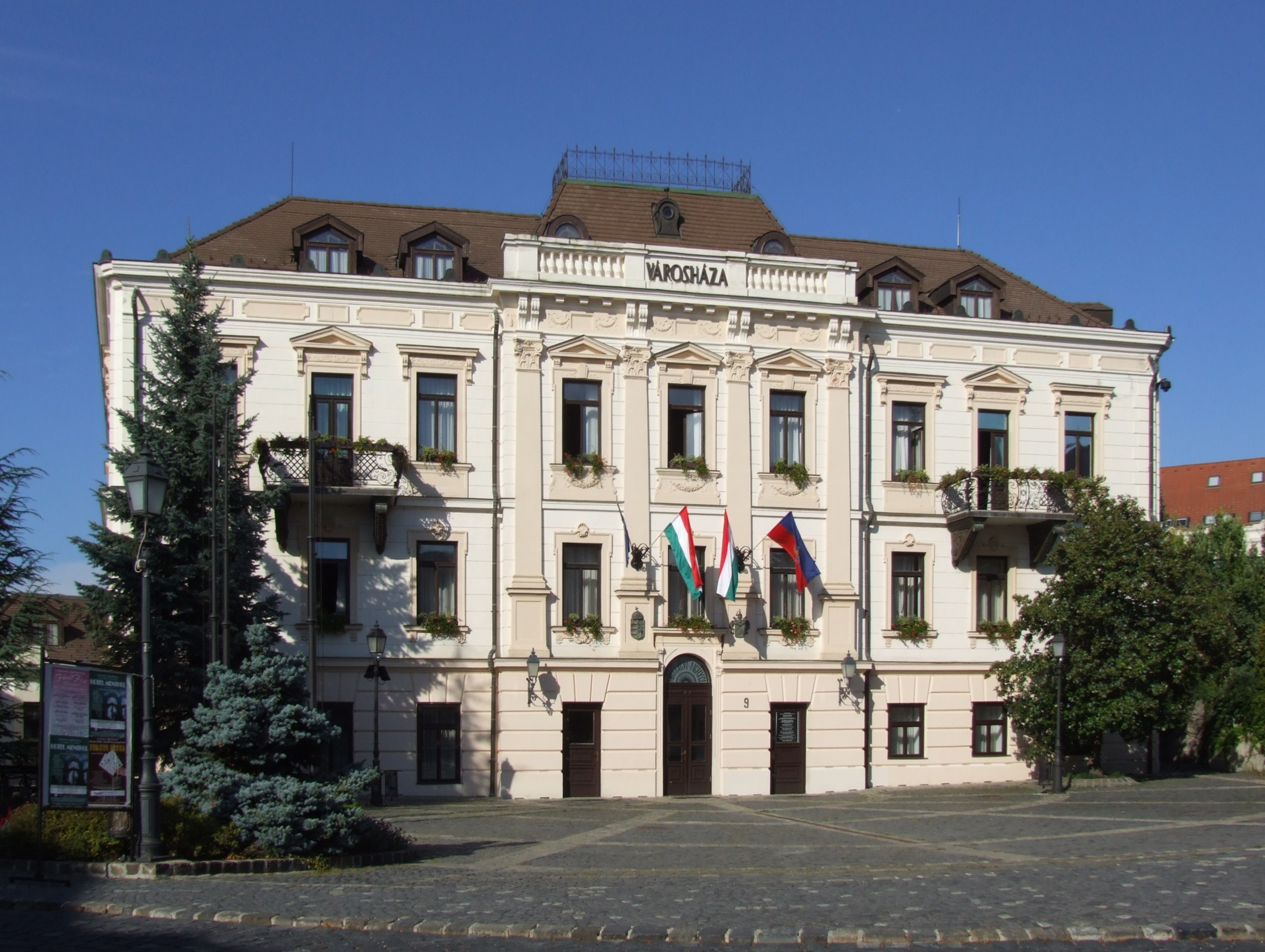 Veszprém, Hungary - city hall